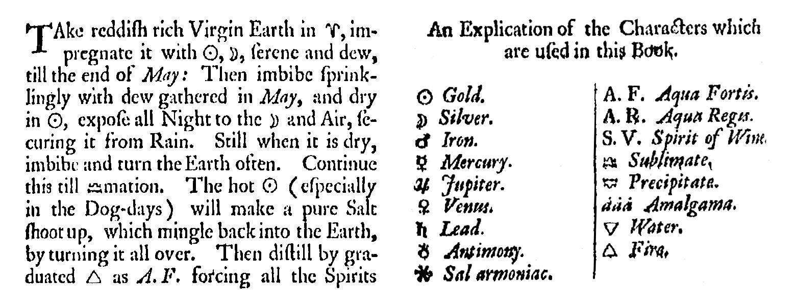 Extract and symbol key from an alchemical text - Kenelm Digby A Choice Collection of Rare Secrets (1682) Take reddiſh rich Virgin Earth in ♈, impregnate it with ☉, ☽, ſerene and dew, till the end of May: Then imbibe ſprinklingly with dew gathered in May, and dry in ☉, expoſe all Night to the ☽ and Air, ſecuring it from Rain. Still when it is dry, imbibe and turn the Earth often. Continue this till 🝞mation. The hot ☉ (eſpecially in the Dog-days) will make a pure Salt ſhoot up, which mingle back into the Earth, by turning it all over. Then diﬅill by graduated 🜂 as A.F. forcing all the Spirits[...] An Explication of the Charac͡ters which are uſed in this Book. ☉ Gold. ☽ Silver. ♂ Iron. ☿ Mercury. ♃ Jupiter. ♀ Venus. ♄ Lead. 🜬 Antimony. 🜹 Sal Ammoniac. A.F. Aqua Fortis. A.℞. Aqua Regis. S.V. Spirit of Wine. 🝞 Sublimate. 🝟 Precipitate. 🝛 Amalgama. 🜄 Water. 🜂 Fire.